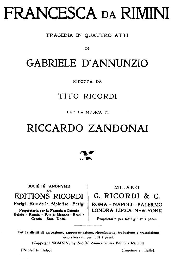 Riccardo Zandonai - Francesca da Rimini - title page of the libretto - Milan 1914